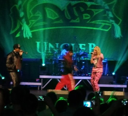 This a photo I took of the group N-Dubz at their Uncle B Tour in April 2009.